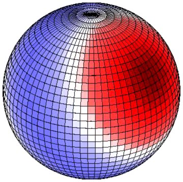 Tidal forcing, western northern hemisphere, on upper left.Moon directly over 30 N, 90 W or 30 S, 90 E.